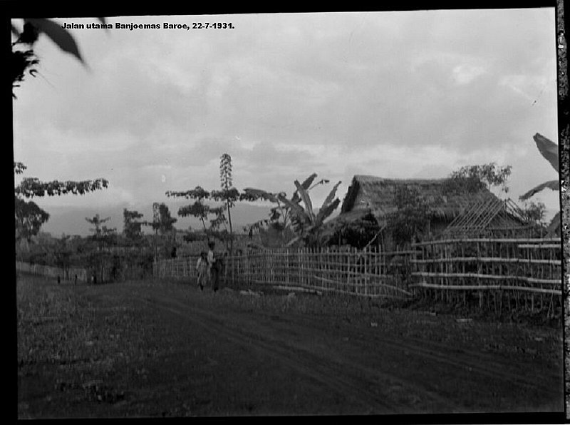 The main street of Banjoemas Baroe, 22-7-1931.